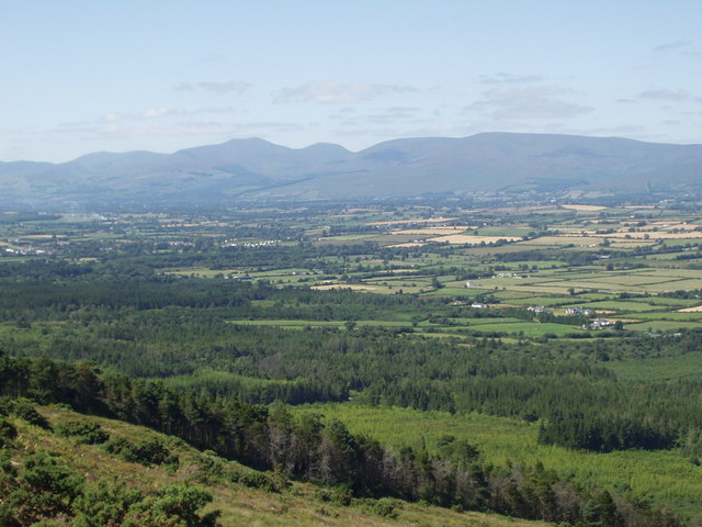 Vista of the Galty Mountains. Picture taken from the Knockmealdown Mountains. The wide vale between the two mountain ranges contains the town of Cahir and the River Tar (itself a tributary of the River Suir).